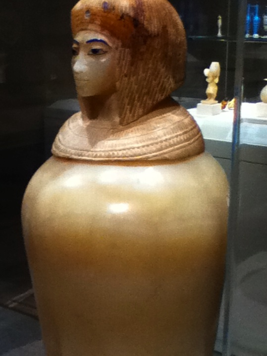 Dynasty 18, reign of Akhenaten, ca. 1353-1336 B.C. Egyptian alabaster (calcite); obsidian, steatite(?), and colored-glass inlay. From Thebes, Valley of the Kings KV 55 Although this canopic jar was intended for a funerary context, the face on the lid was carved by a master with the skill and care one might expect in a more public portrait. Whatever the age of the owner at her death, she was given a youthful countenance for the eternal afterlife. The shape of the face, with its long slender nose, sloe eyes, and sensuous mouth, identifies it as a product of the latter half of the Amarna period. The jar and the lid were altered in antiquity, making it extremely difficult to identify the original owner.